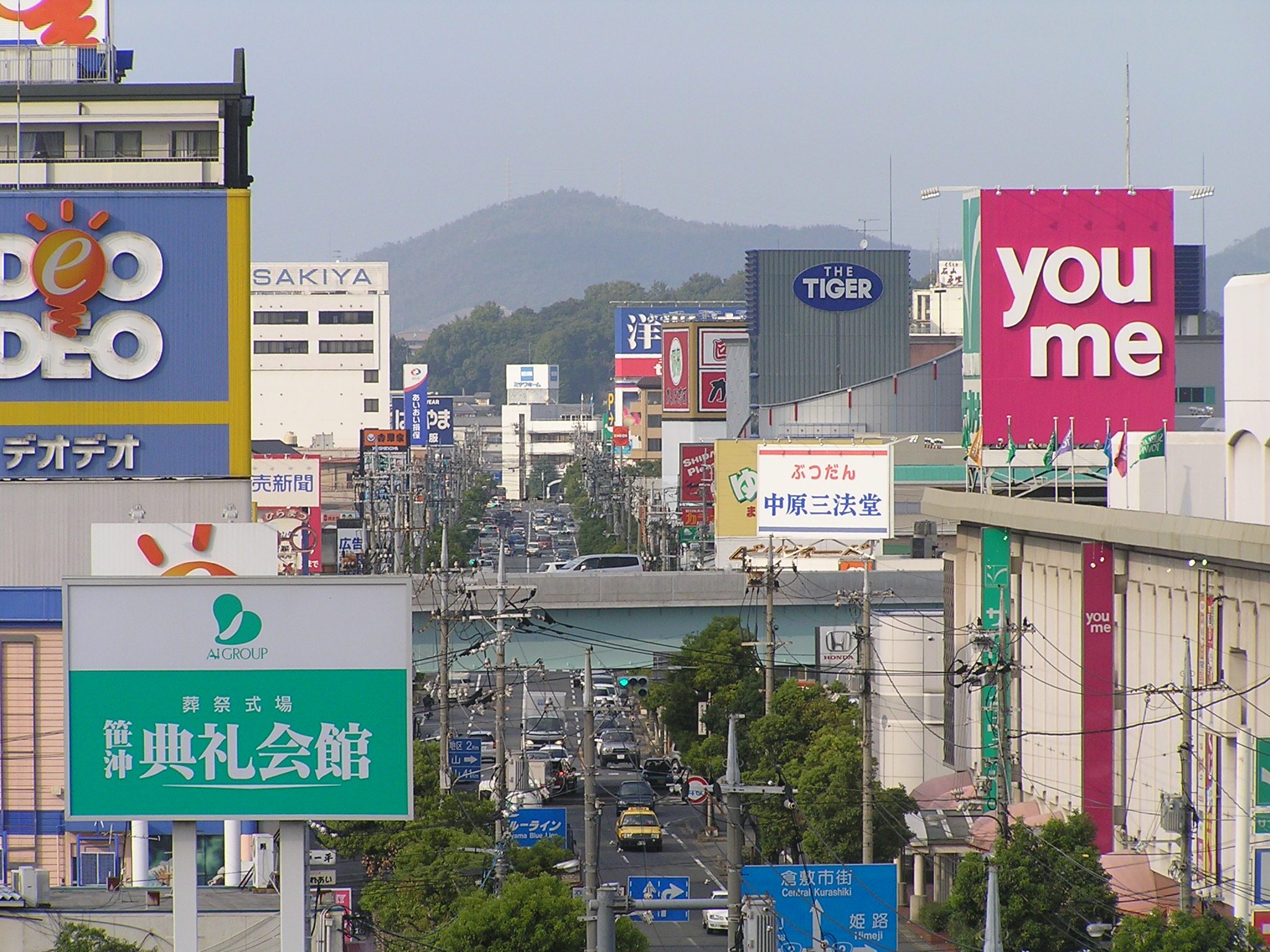 Sasaoki Town in Kurashiki seen from the south